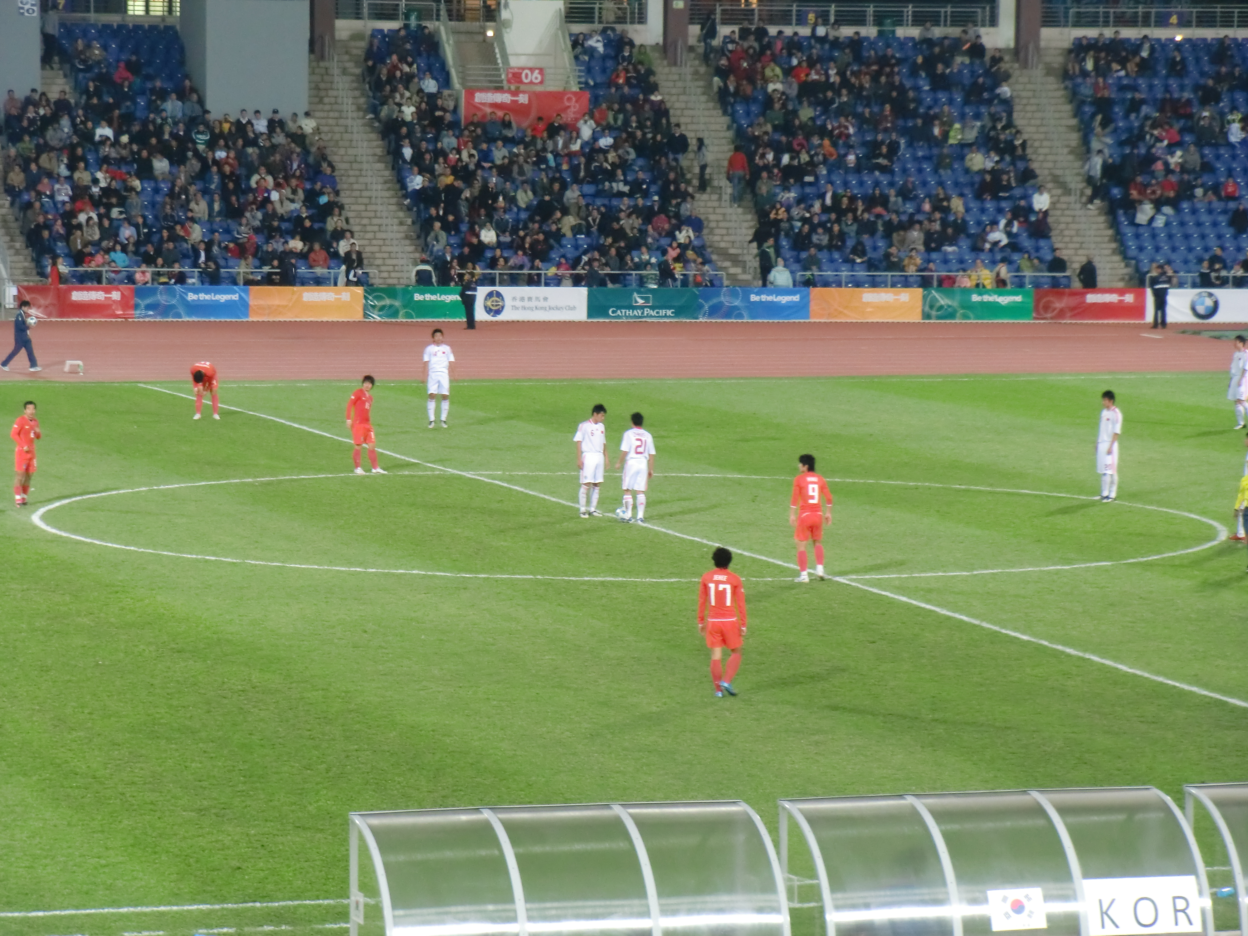 Football at the 2009 East Asian Games Group B China vs Korea